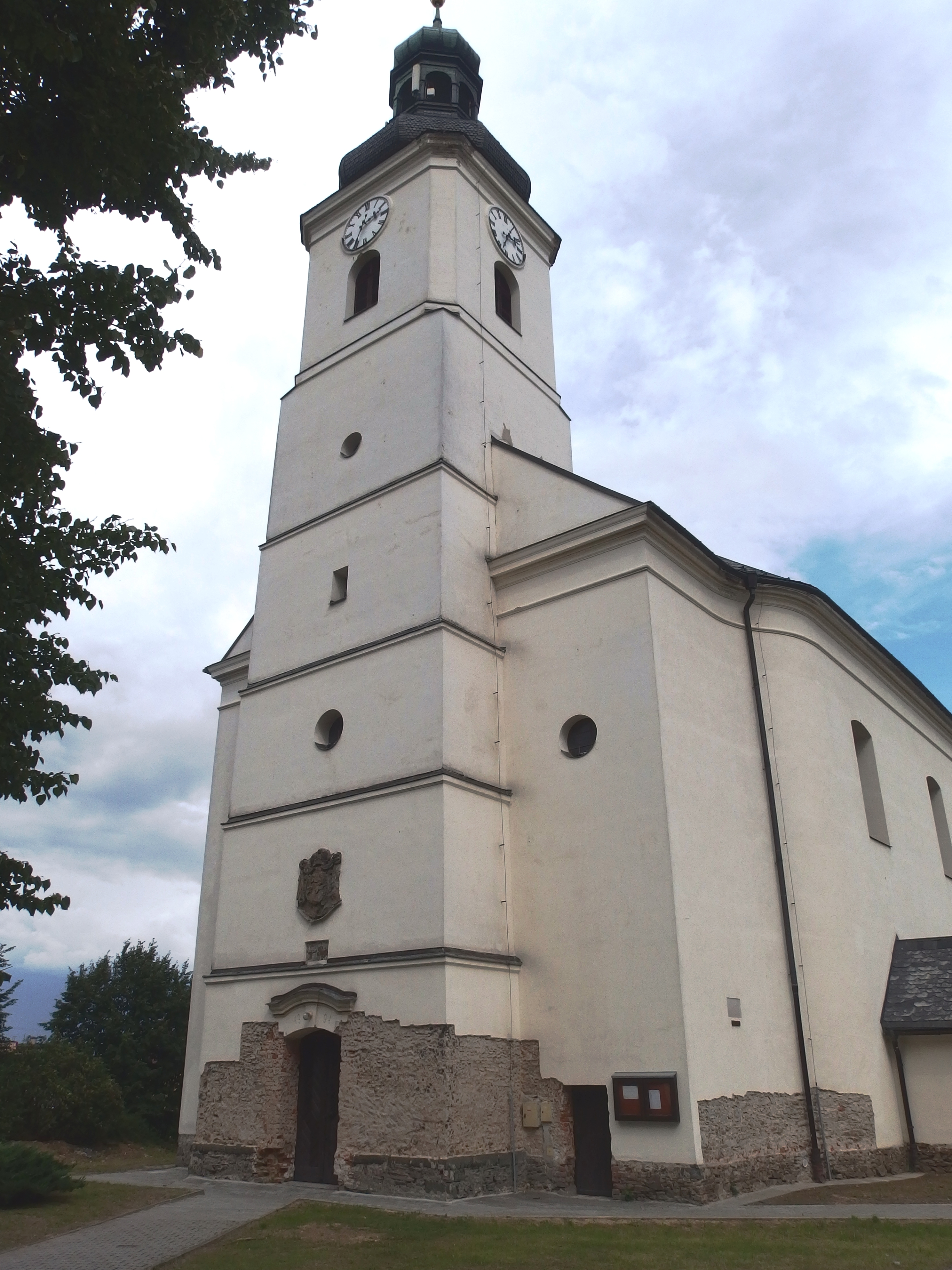 Brumovice, Opava District, Czech Republic.